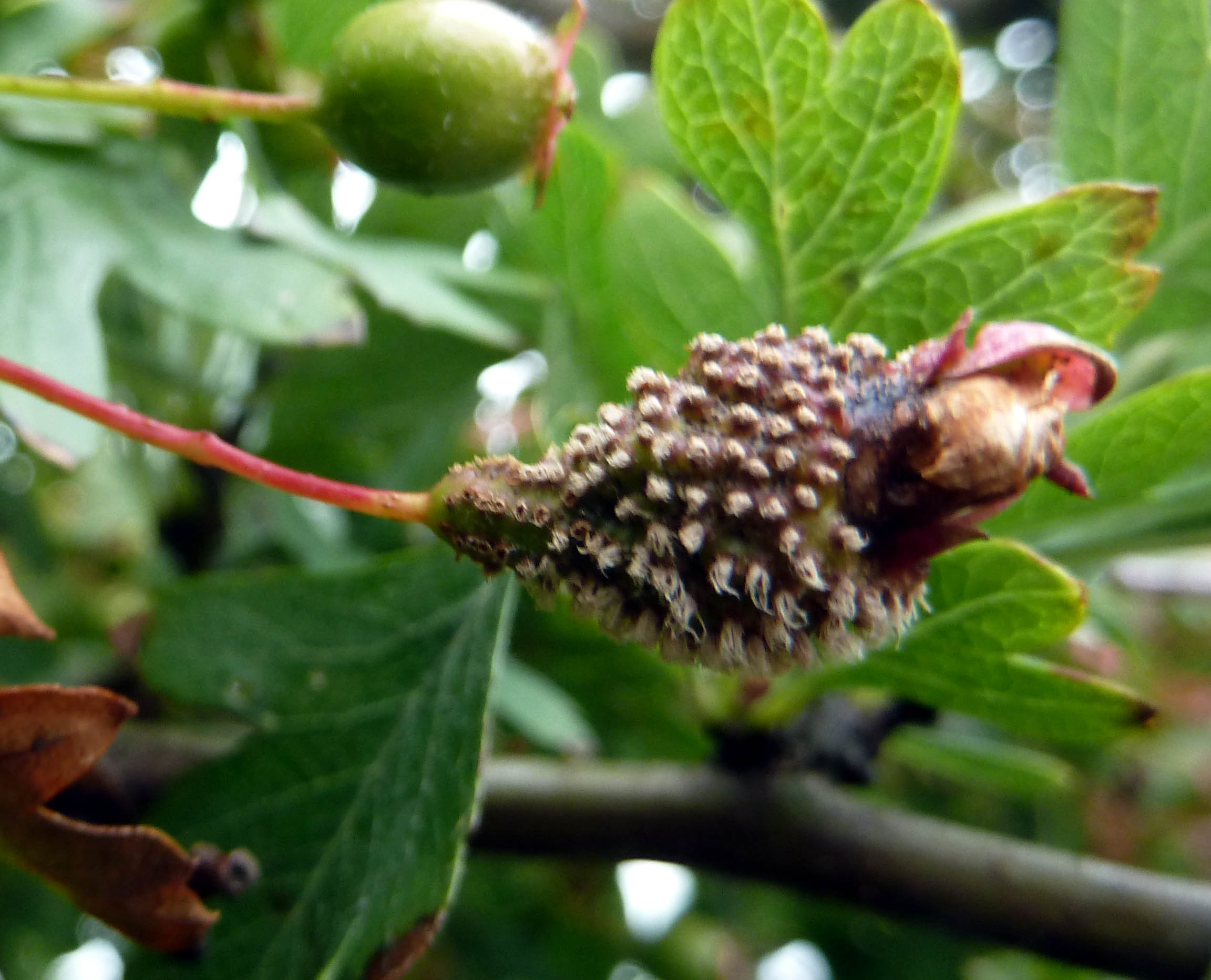 Gymnosporangium spore tubes on Hawthorn, Anglesey